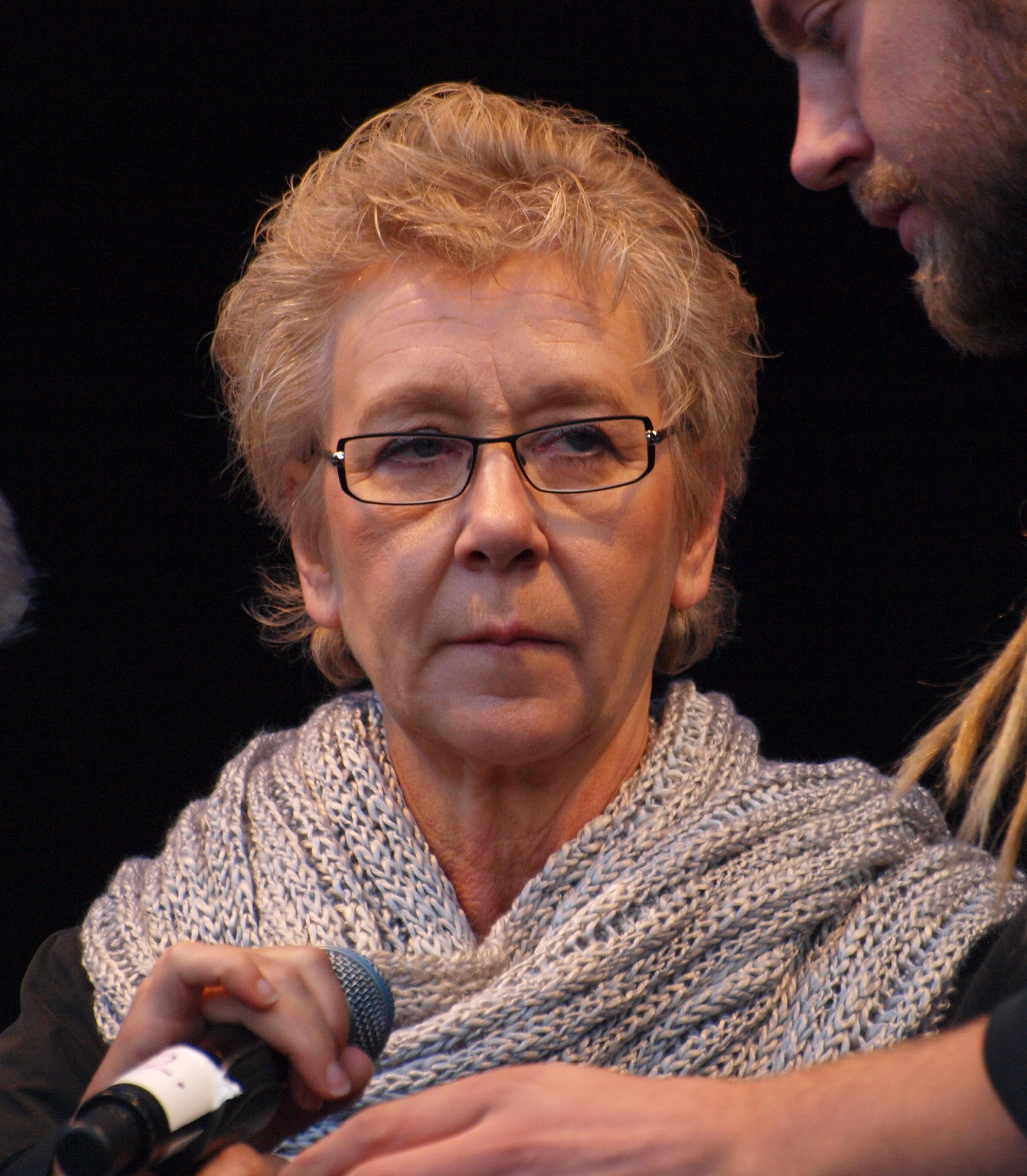 Nationalteatern on Götaplatsen performing after Red-Greens election speaches. Med Reventberg